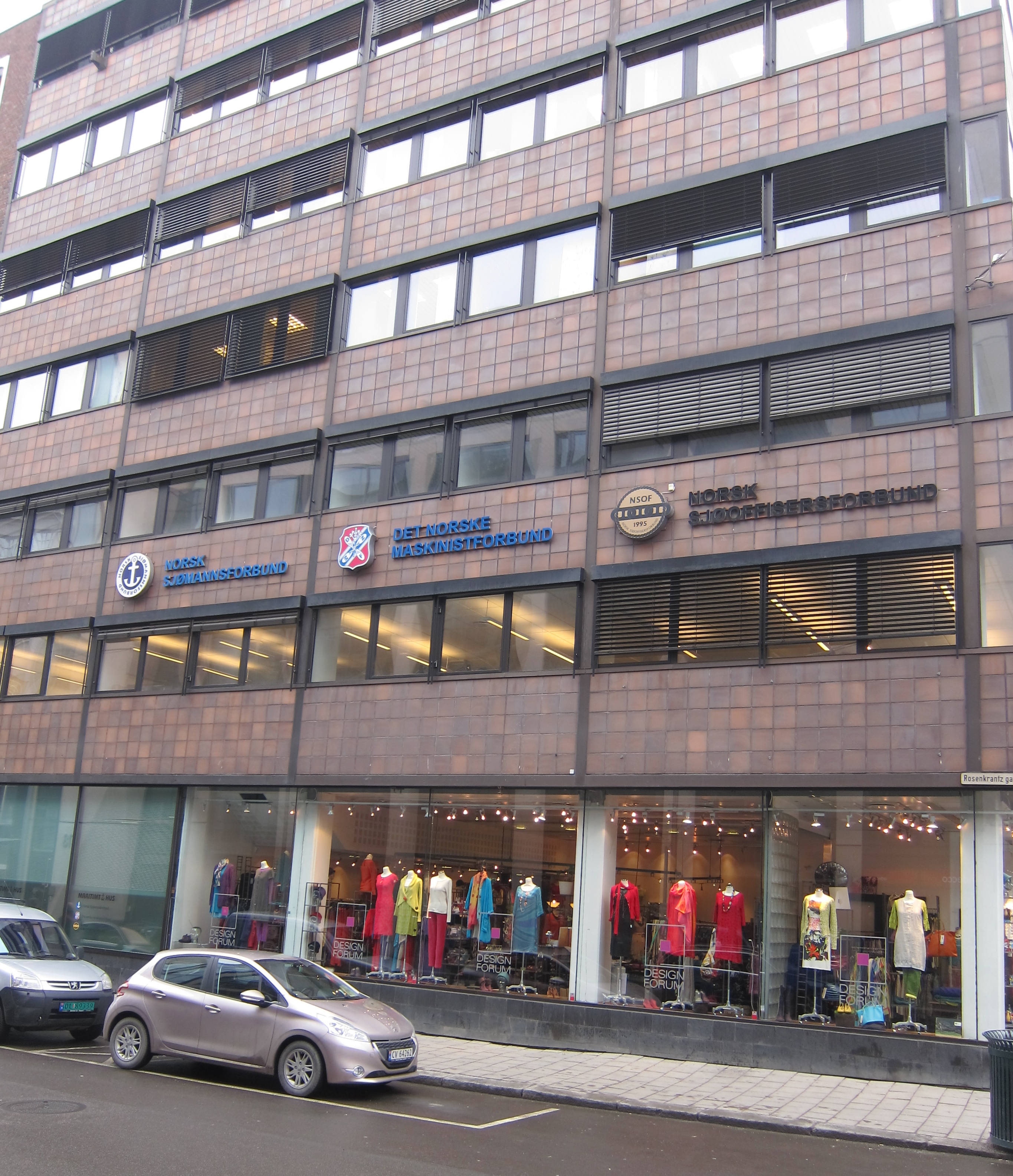 Rosenkrantzgate 15 in Oslo, where three Norwegian maritime trade unions have their main offices: Norsk Sjøoffisersforbund, Det norske maskinistforbund and Norsk Sjømannsforbund